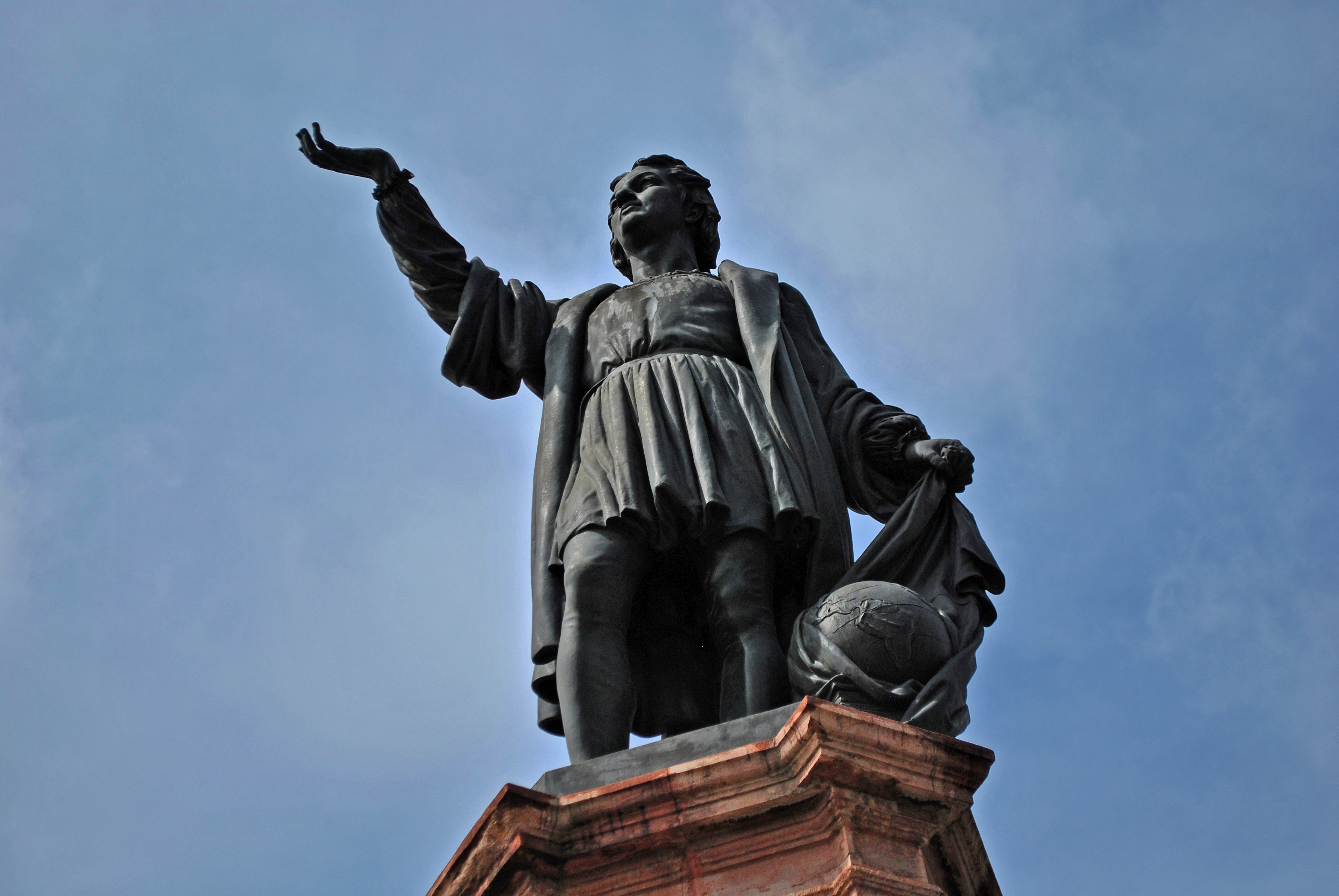 The Monument to Christopher Columbus in the City of Mexico; located in the square formed at the intersection of Paseo de la Reforma and Avenida Morelos. Not to be confused with the one located at the intersection of streets Buenavista and Héroes Ferrocarrileros.